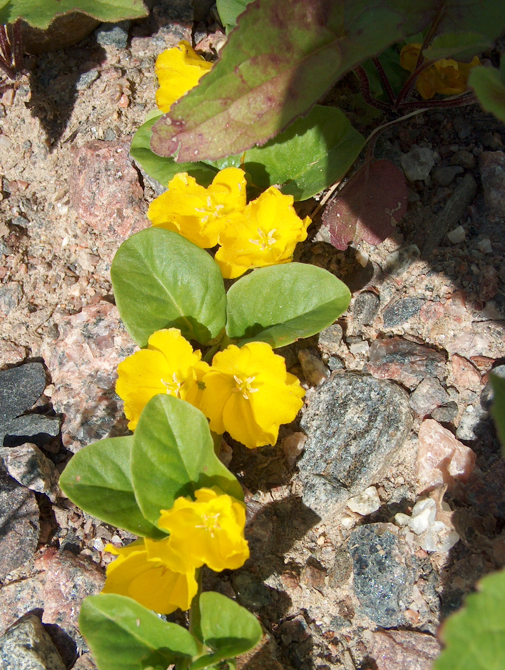 Creeping jenny, moneywort, herb twopence or twopenny grass (Lysimachia nummularia) in Kerava, Finland